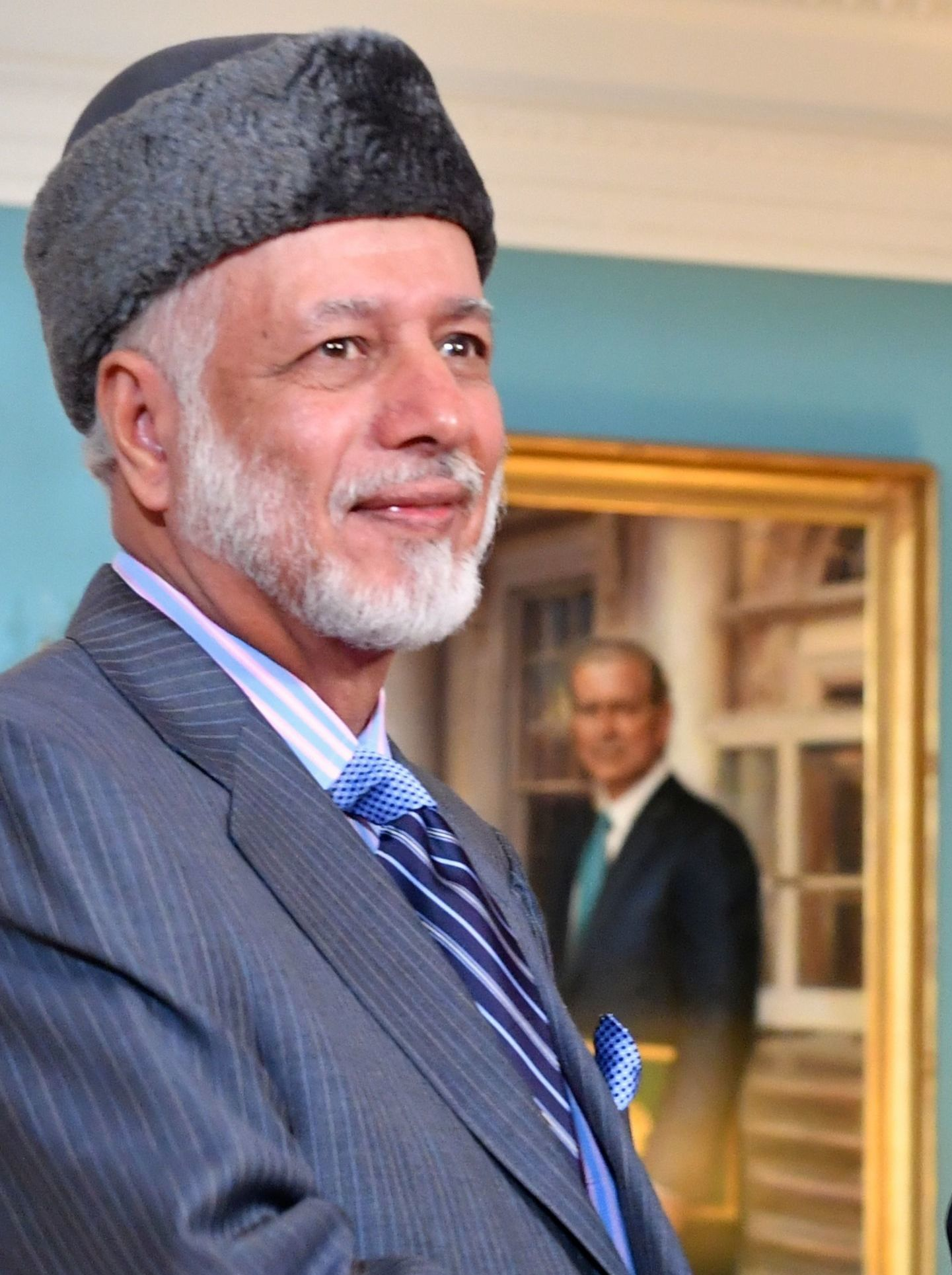 Omani Foreign Minister Yusuf bin Alawi bin Abdullah at the U.S. Department of State in Washington, D.C., on July 21, 2017.